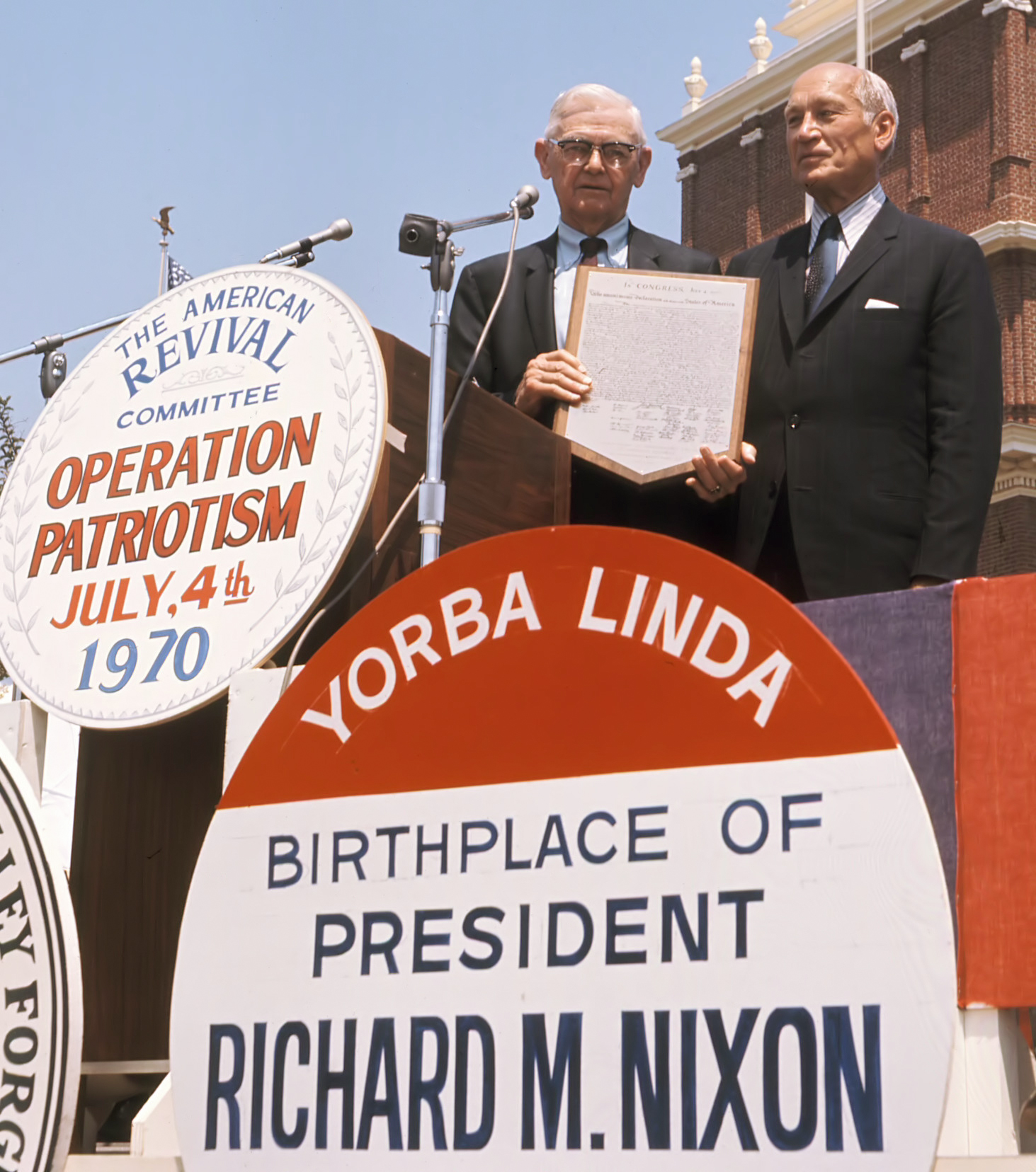 Walter Knott and Dr. Arnold Beckman at Knott's Berry Farm, July 4, 1970.